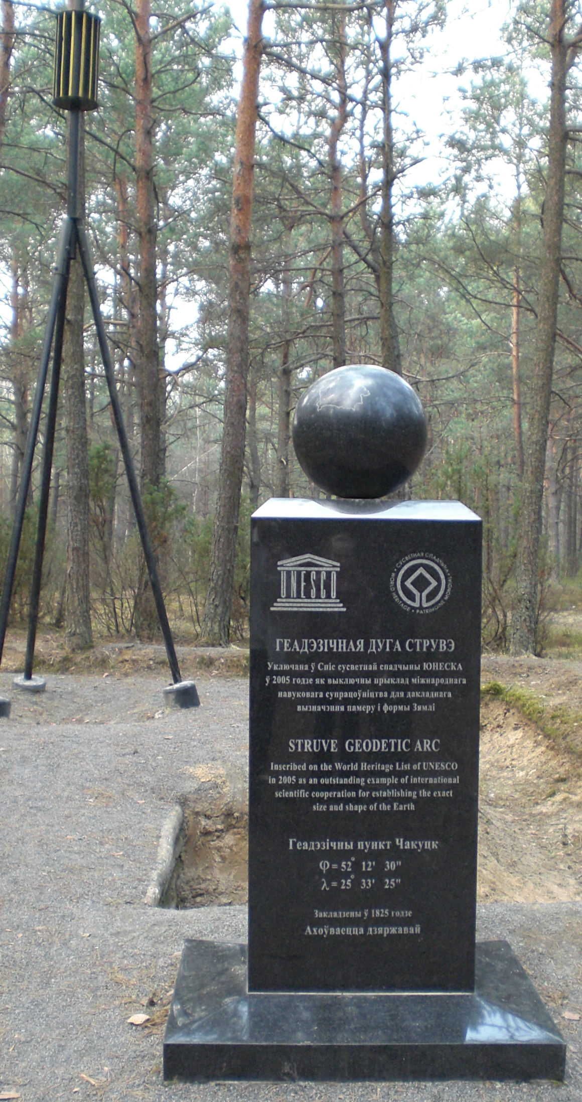 Struve Geodetic Arc point Tchekutsk (Шчакоцк; Щекотск; Chekutsk) in Ivanava (Ivanovo) district, Brest Region, Belarus. This is one of the 34 selected points of the object on UNESCO World Heritage List.